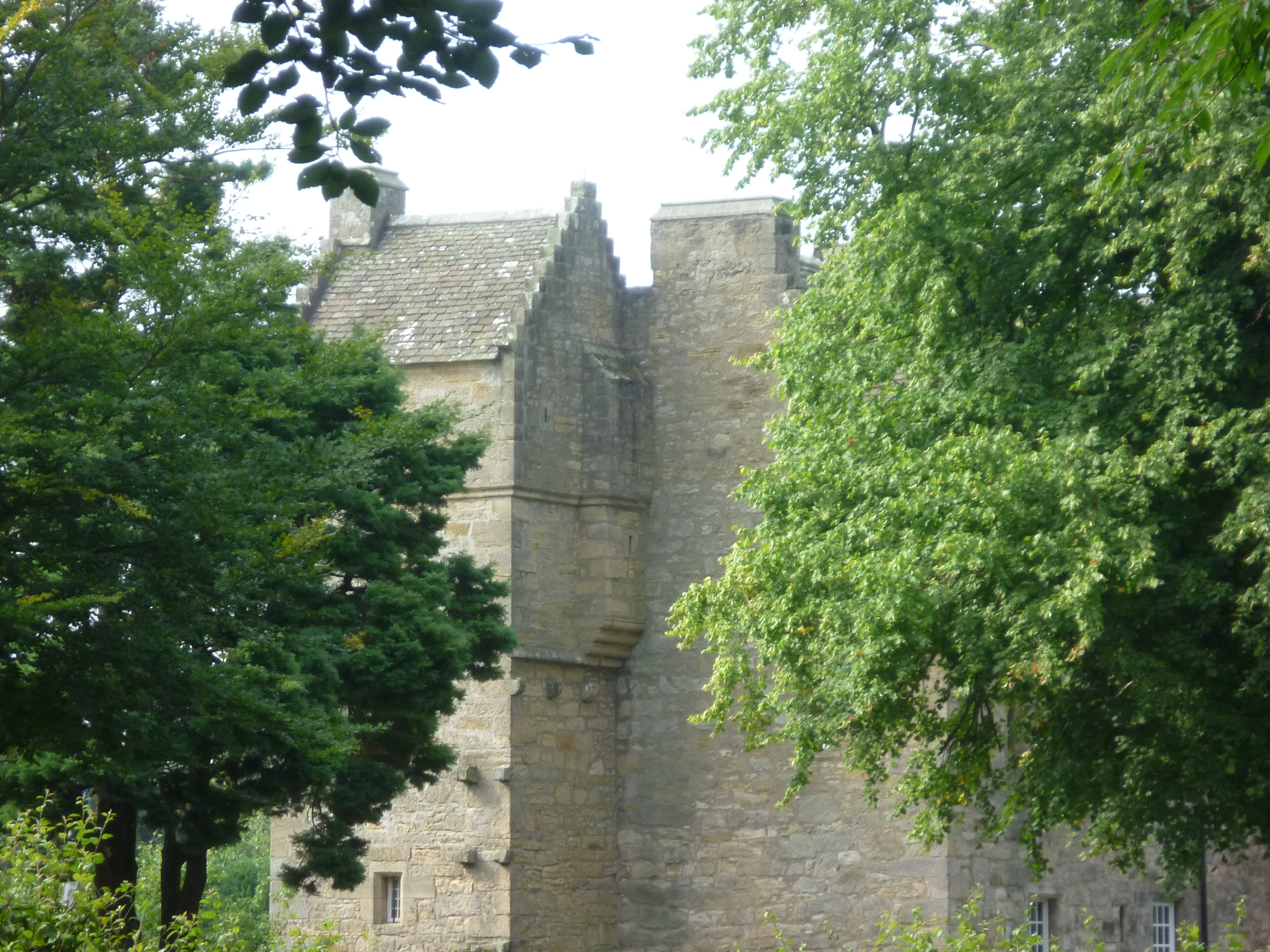 Fordell Castle, near Crossgates